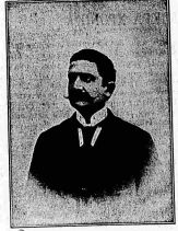 Stamatios Valvis Greek poet